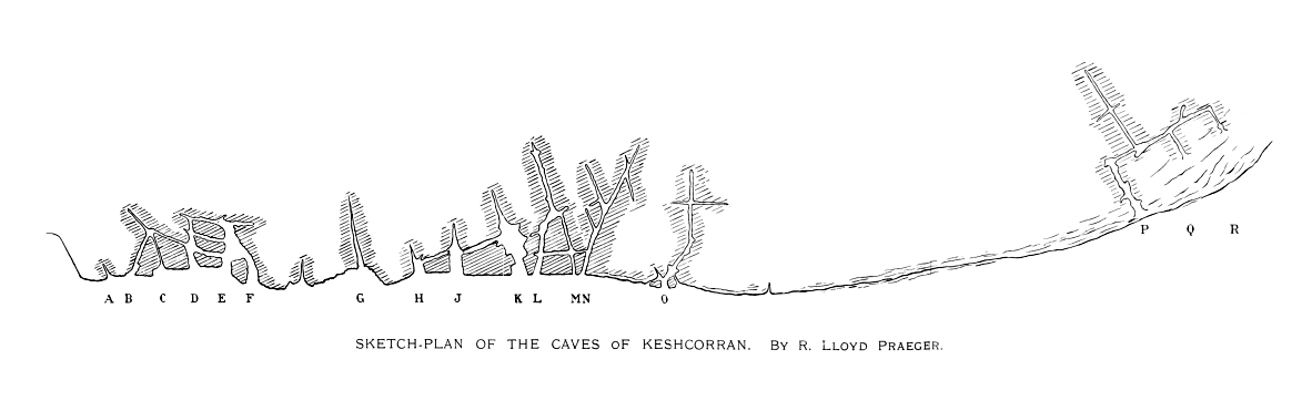 1903 plan of the Kesh Caves sketched by R. Lloyd Praeger, from 'The Exploration of the Caves of Kesh', as seen in 'Transactions of the Royal Irish Academy', Vol. 32